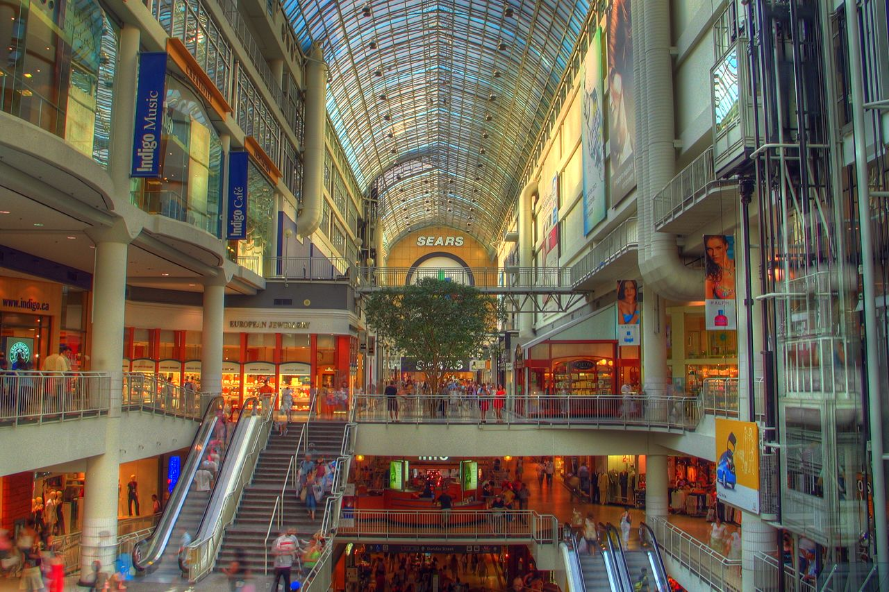 Toronto Eaton Centre, Toronto, CanadaEaton Centre HDR style